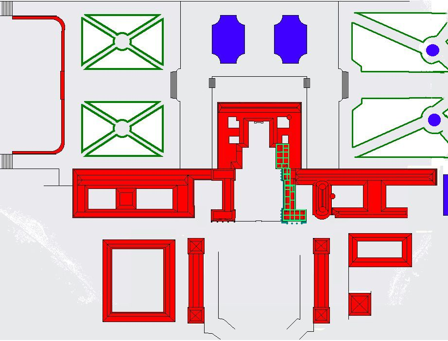 Versailles as it was altered under Louis XV. Only part of the extensive modernisation of the facade facing the court has been realised (in dark green) A new suite of private rooms has been built.(sketched loosely in lighter green) The staircase of the staircase of the ambassadors was destroyed to make room for these private rooms.